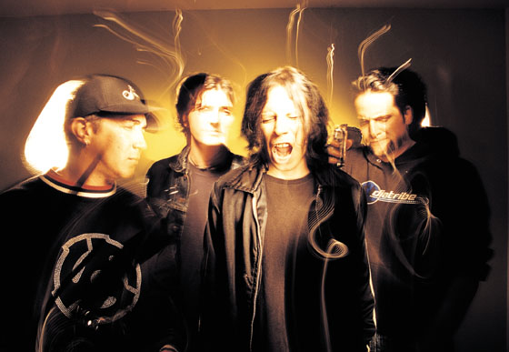 This is from the the last known photoshoot of the band The Ex-Idols which was intended for their second full length album "WhoWeAre"